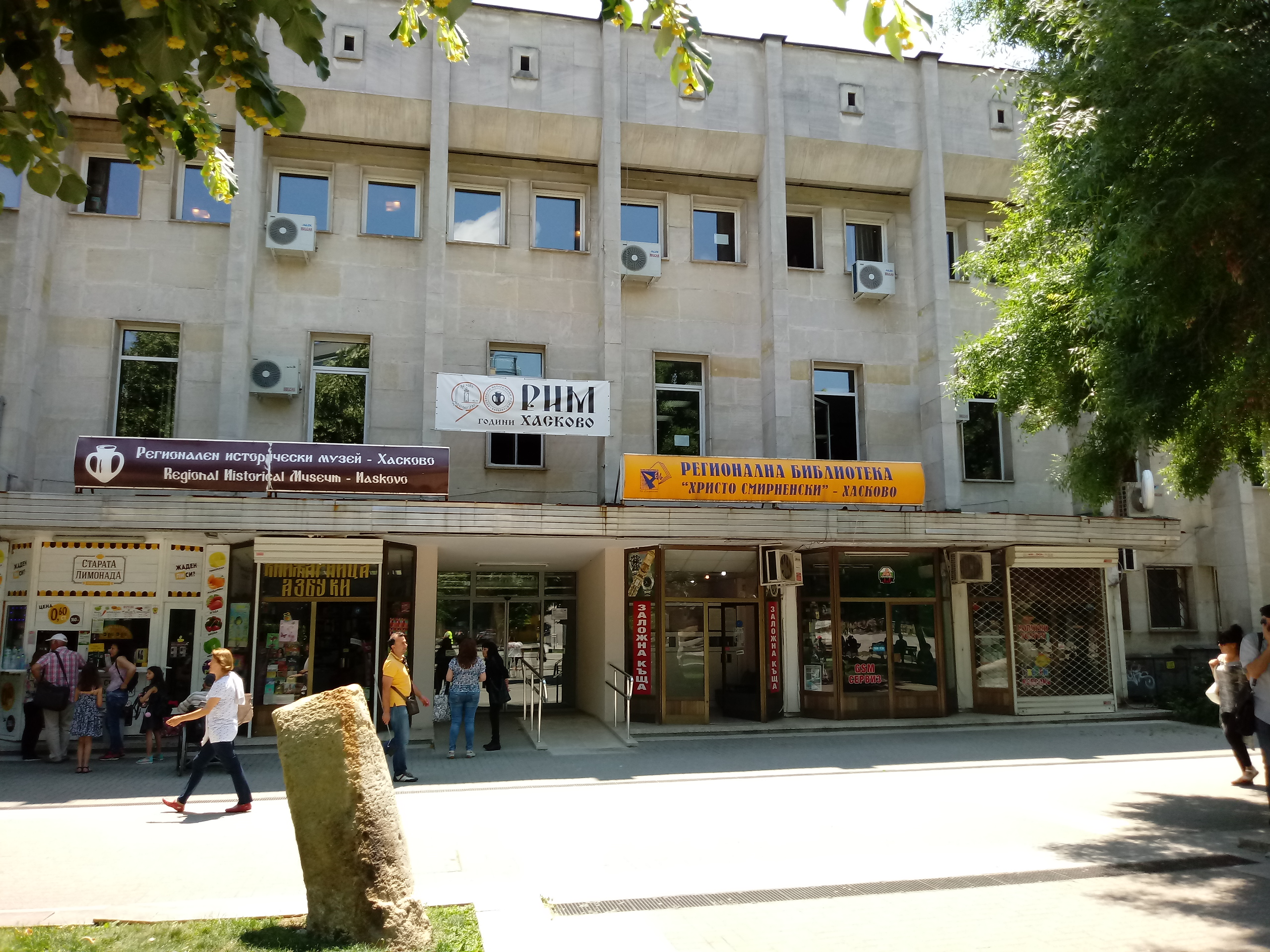 Regional library "Hristo Smirnenski" - Haskovo